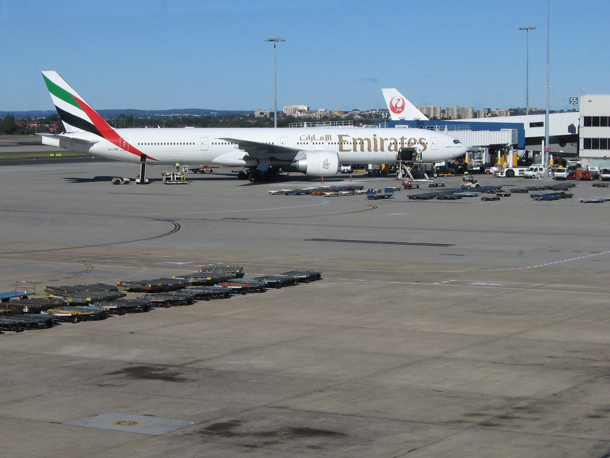 Emirates airlines Boeing 777